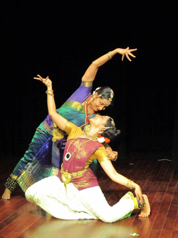 Prateeksha Kashi with her Mother and Guru Vyjayanthi kashi